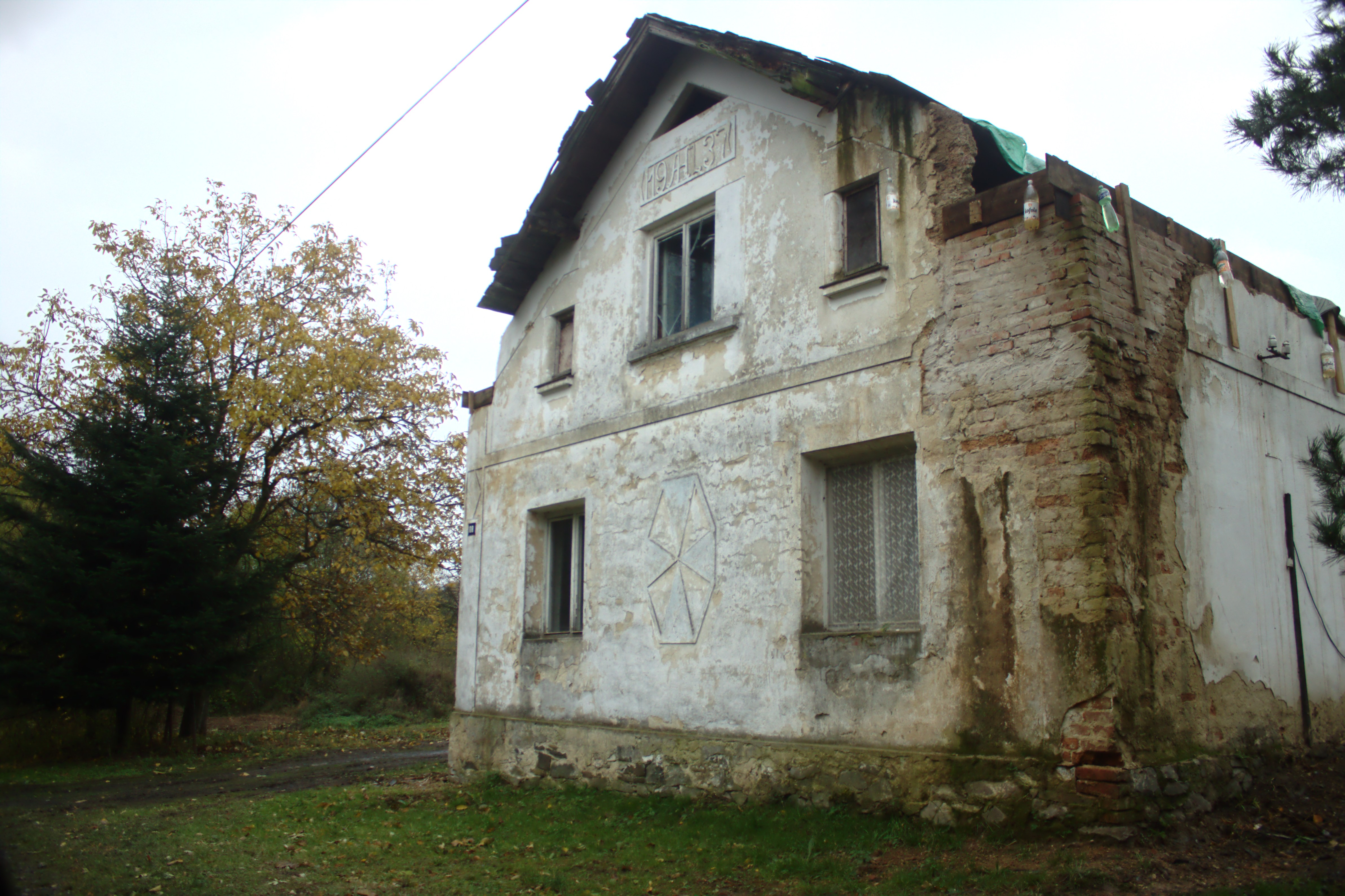 A building in the village of Nový Les, CZ